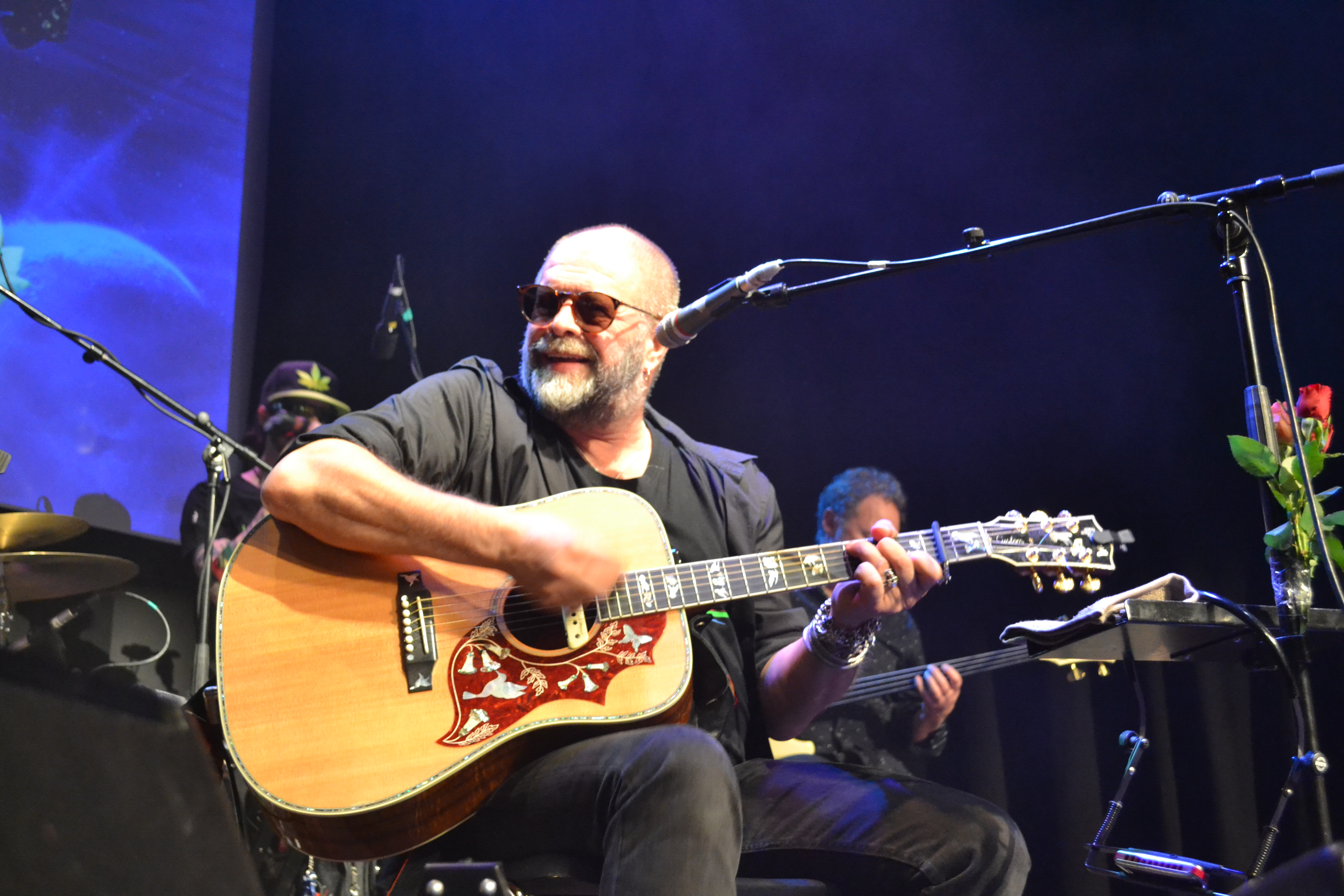 Boris Grebenshikov performing in Oslo, 2015